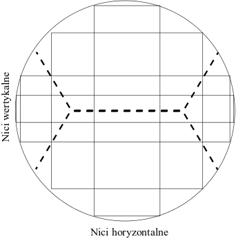 Danjon astrolabe (field of view)